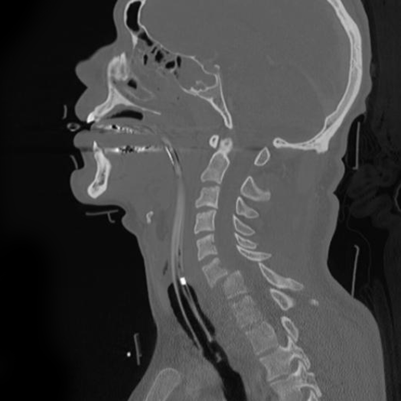 Sagittal CT reconstruction demonstrating a fracture dislocation at C6/7